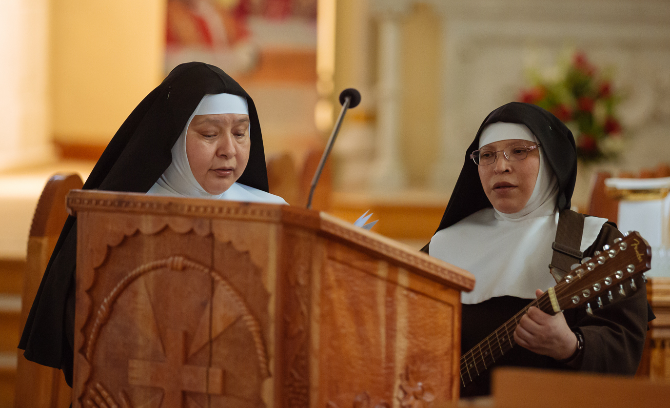 Sr. Clara's First Profession Capuchin Poor Clares